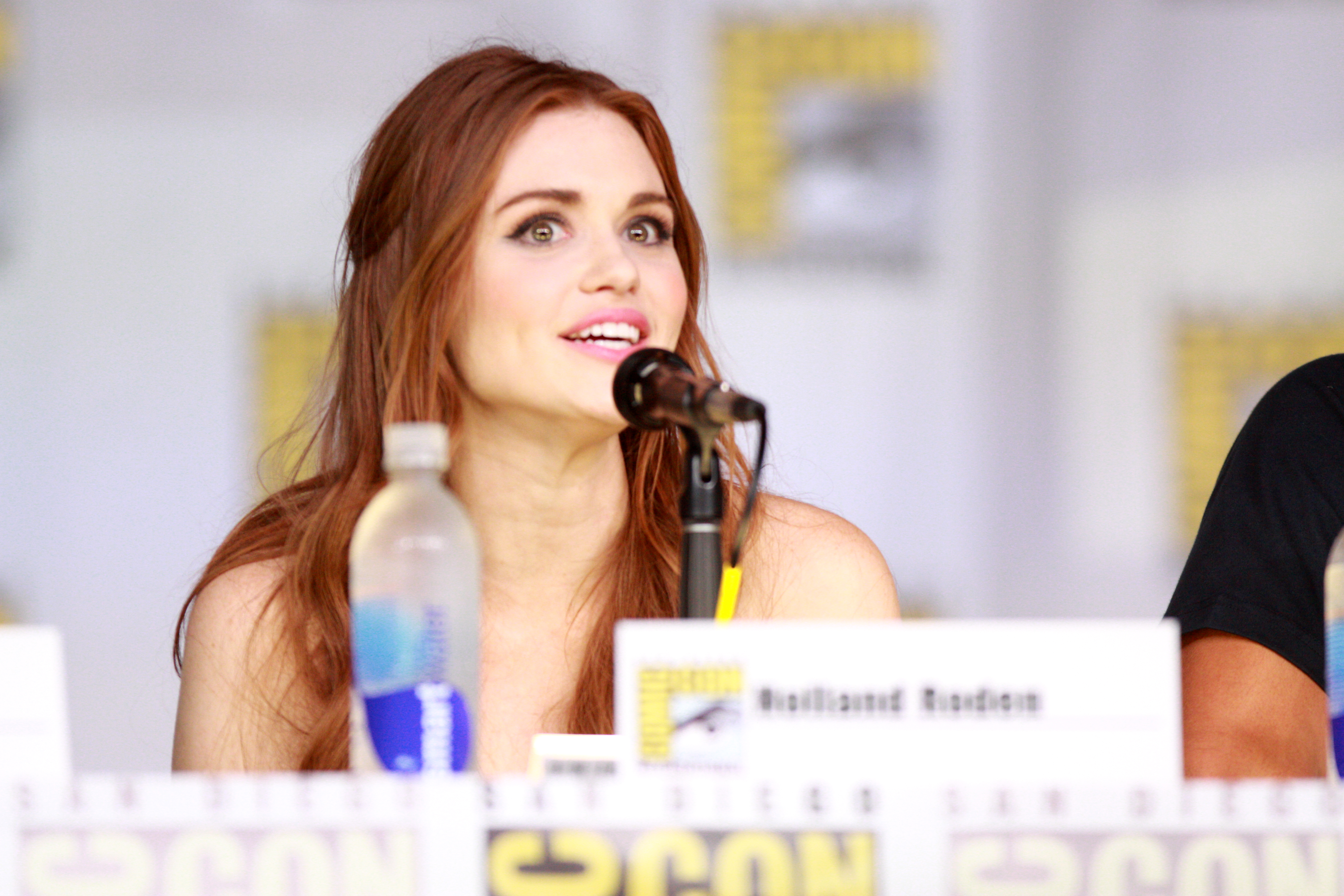 Holland Roden speaking at the 2013 San Diego Comic Con International, for "Teen Wolf", at the San Diego Convention Center in San Diego, California.